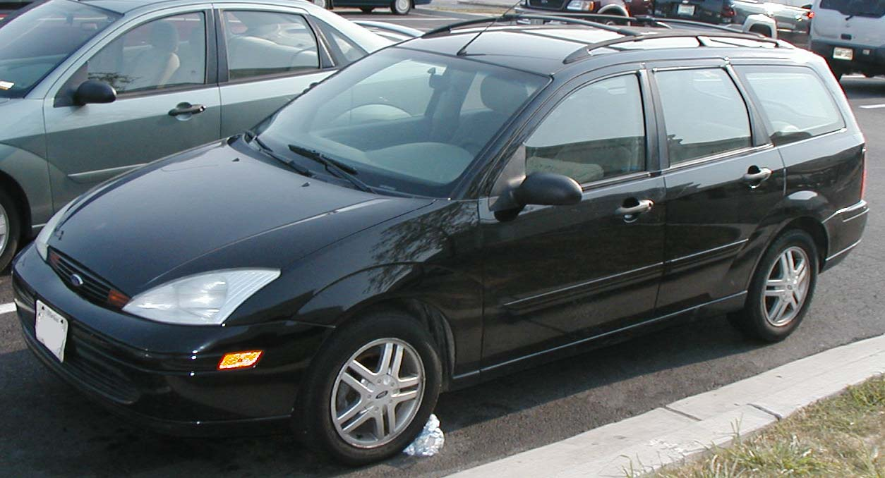 2000-2004 Ford Focus SE wagon photographed in USA.